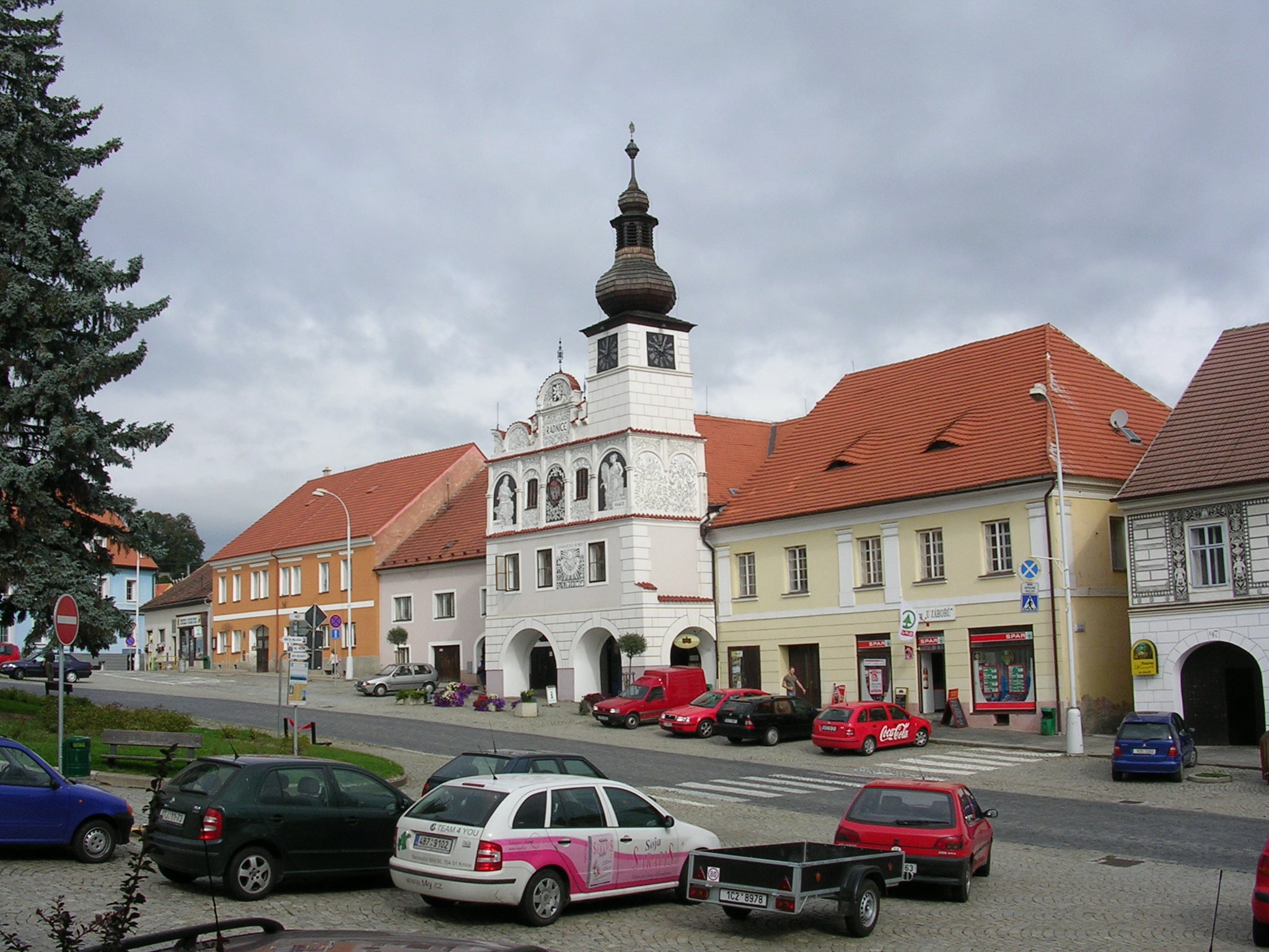 Volyně, South Bohemian Region, Czech Republic. Town hall. - OpenStreetMap(Info)